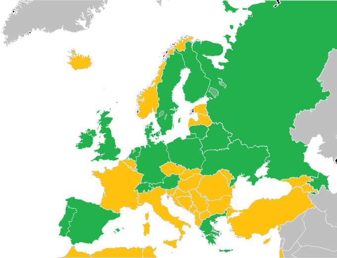 Countries that has taken part in the EDC and countries that can do it